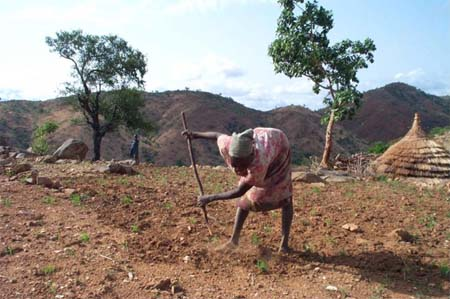 Nuba person farming on the hilltop, Nuba Mountains — southern Sudan.